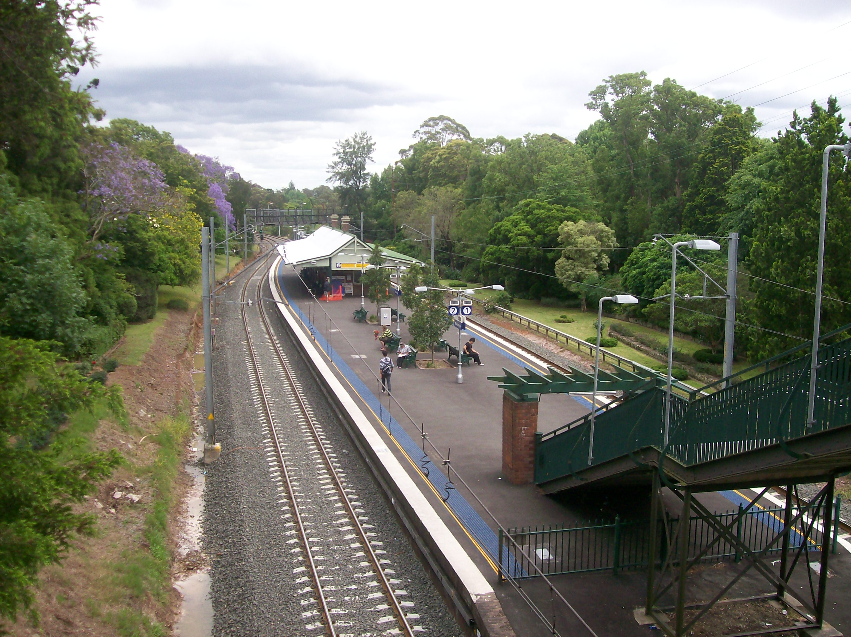 Wahroonga railway station